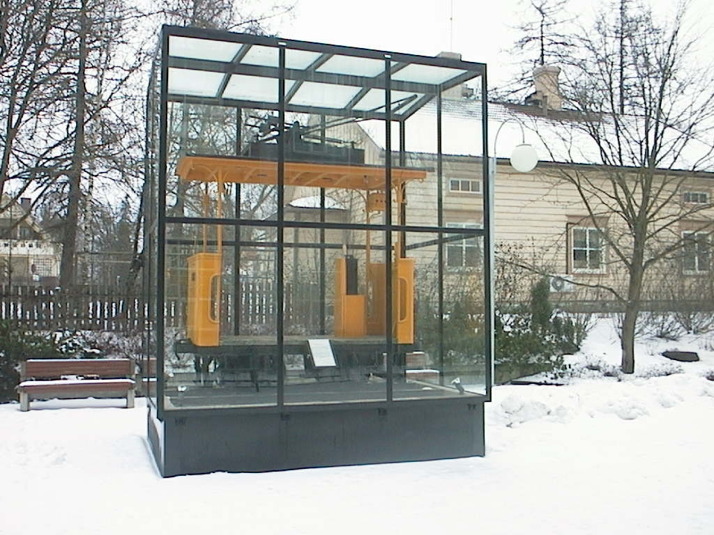 The oldest locomotive of the Forssa electric railway as a monument